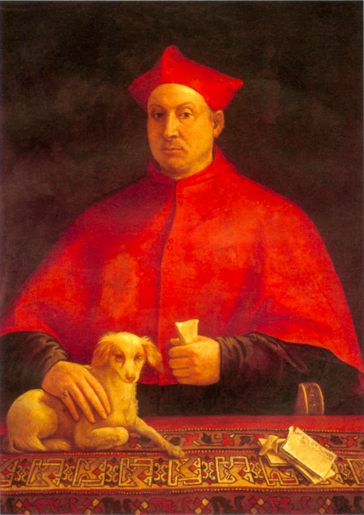 Portrait of Cardinal Pompeo Colonna (1479-1532)